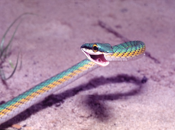 Leptophis ahaetulla in Lençóis Maranhenses National Park, Maranhão State, Northeastern Brazil. Photo by J. P. Miranda.